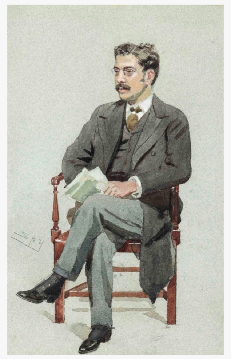 Caricature of Mr Clement King Shorter. Caption read "Three Editors".